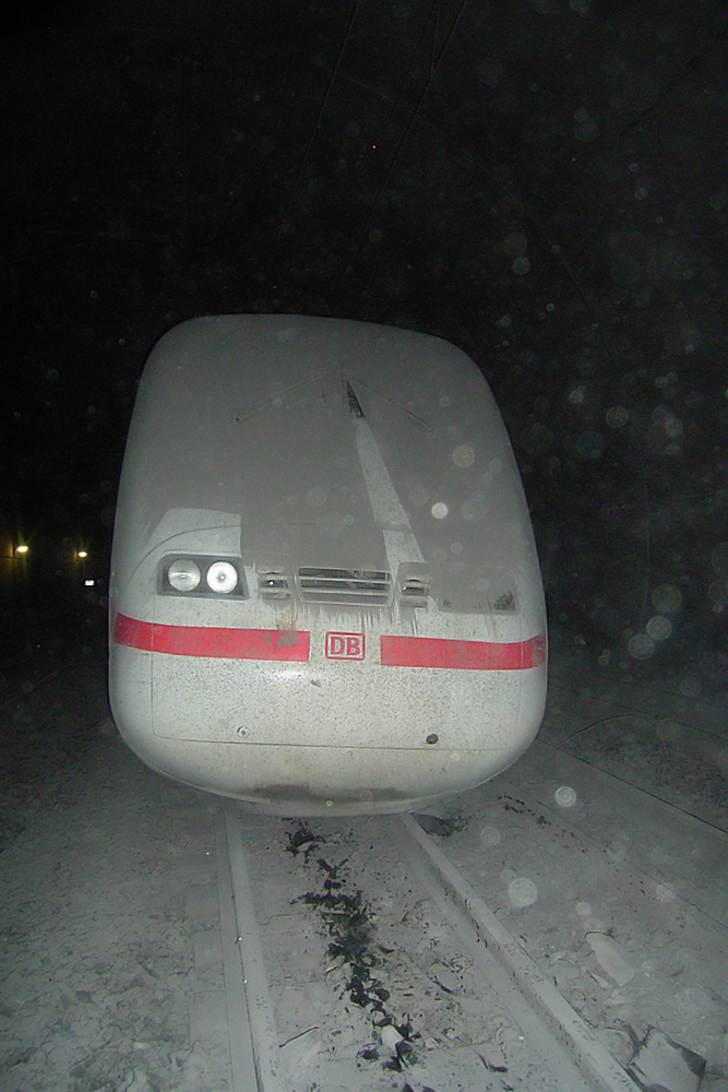 The derailed power head of the ICE 1 train that was pushing the track, covered with dust.